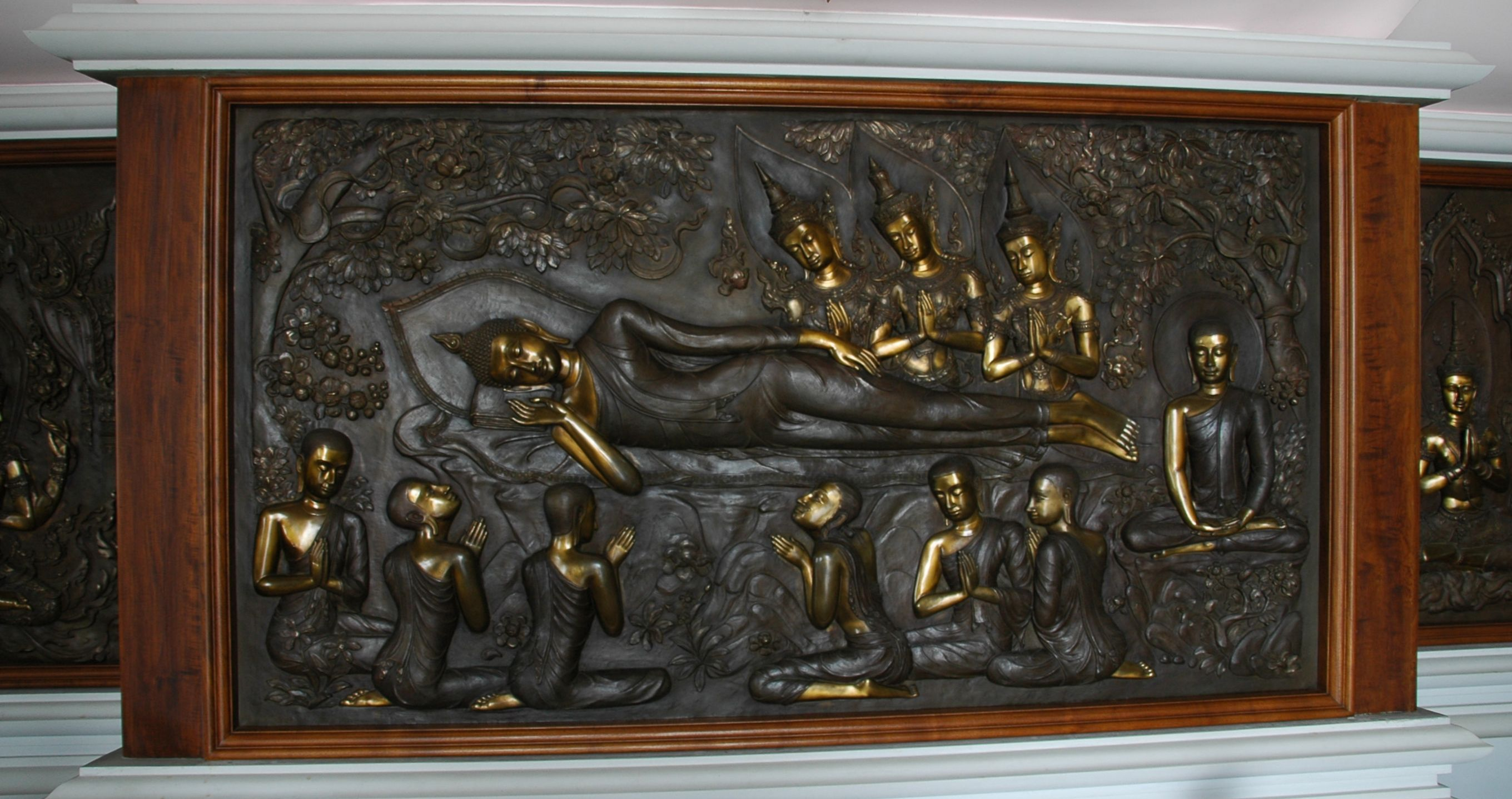 A Detail inside Wat Pa Phu Kon, Province Udon Thani, Thailand.